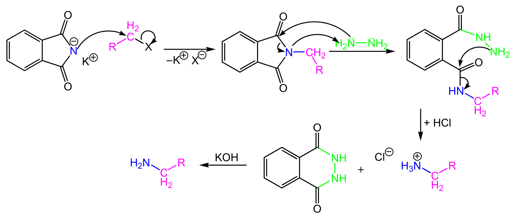 Mechanism of Gabriel synthesis